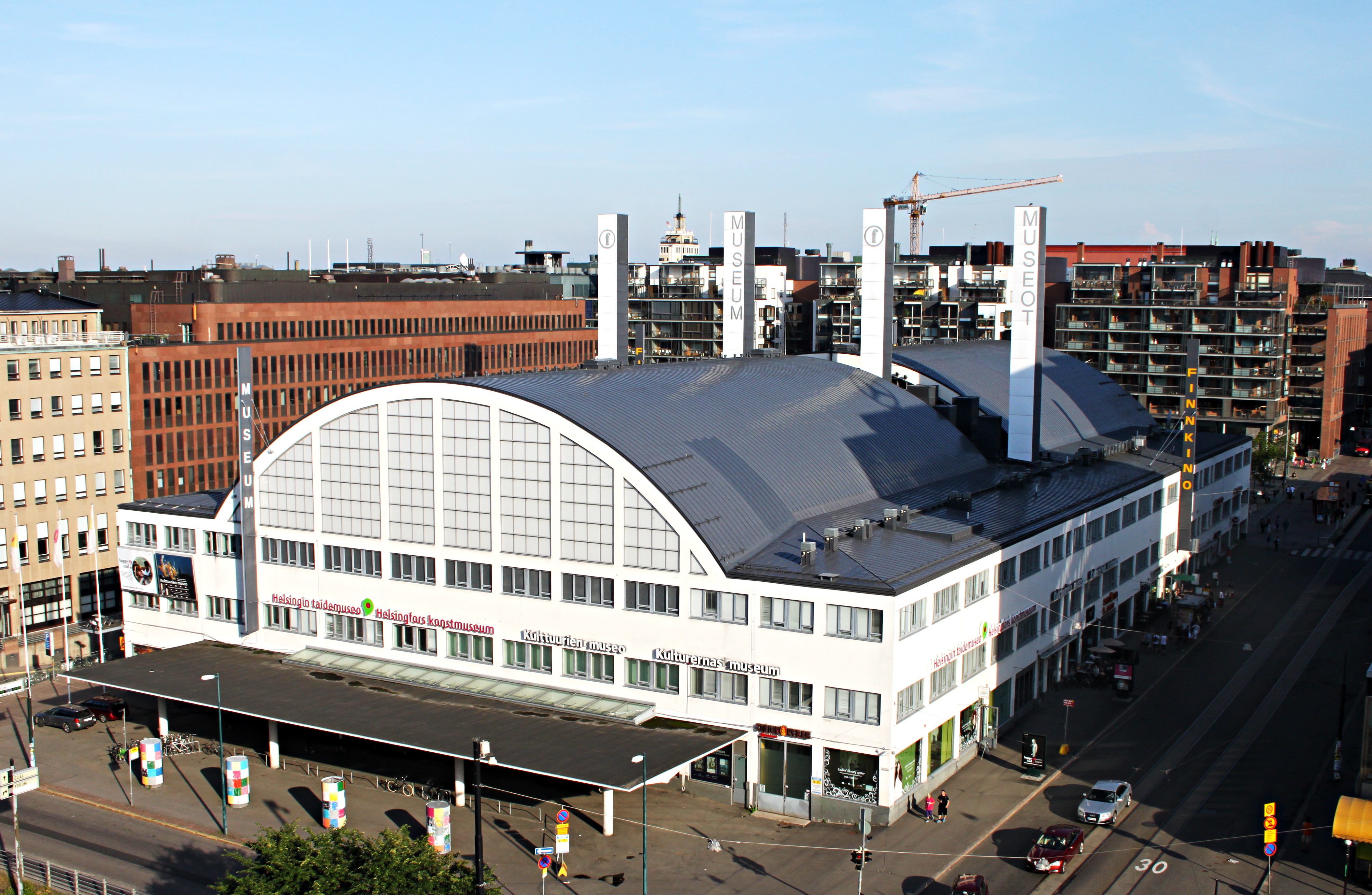 Tennispalatsi, Helsinki. Built 1937–1938. Photographed from the roof of KY building.